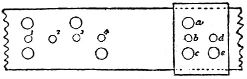 In the Wheatstone automatic apparatus three levers are placed side by side, each acting on a set of small punches and on mechanism for feeding the paper forward a step after each operation of the levers. The punches are arranged as shown, and the levers are adjusted so that the left-hand one moves a, b, c and punches a row of holes across the paper (group 1 in the figure), the middle one moves b only and punches a centre hole (2 in the figure), while the right-hand one moves a, b, d, e and punches four holes (3 and 4 in the figure). The whole of this operation represents a dot and a dash or the letter “a.” The side rows of holes only are used for transmitting the message, the centre row being required for feeding forward the paper in the transmitter. The perforation of the paper when done by hand is usually performed by means of small mallets, but at the central telegraph office in London, and at other large offices, the keys are only used for opening air-valves, the actual punching being done by pneumatic pressure.